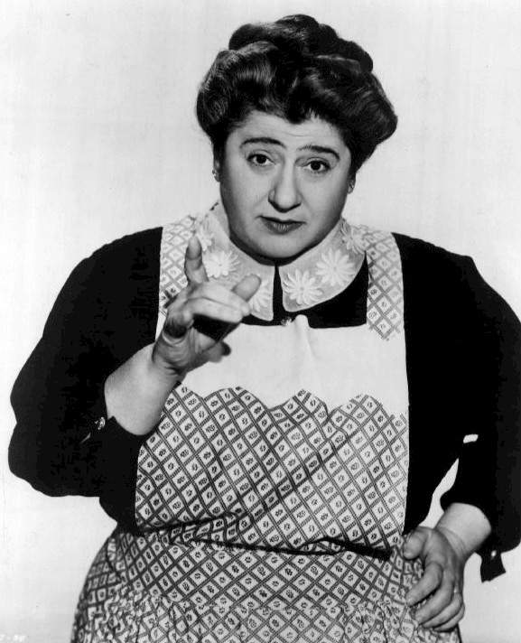 Photo of Gertrude Berg as Molly Goldberg from the television program The Goldbergs.